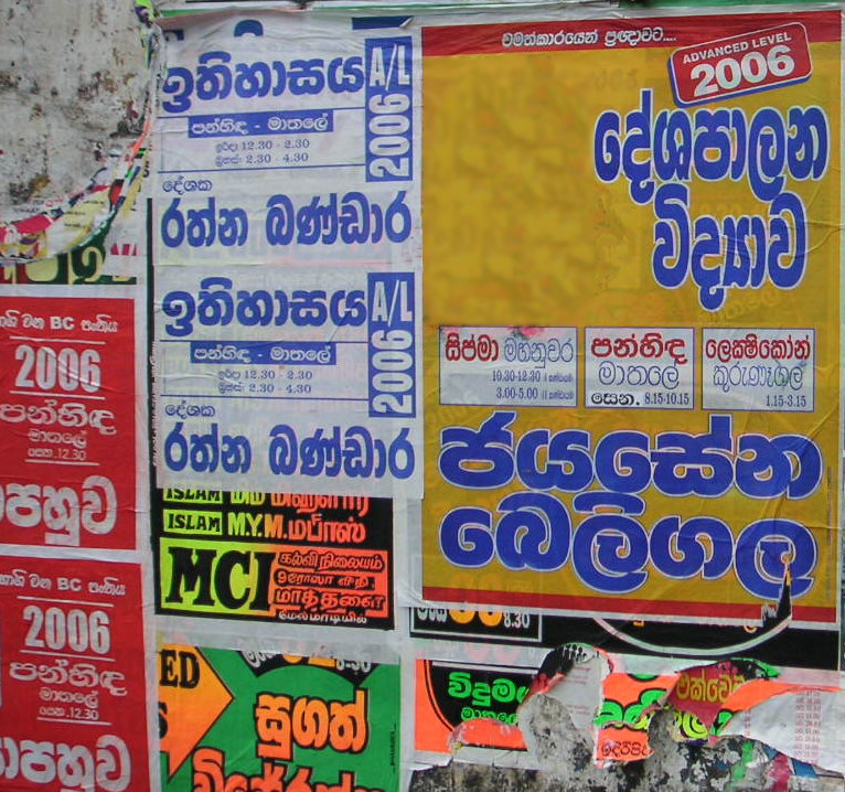 Photo of a wall with posters in Sinhala script in Sri Lanka